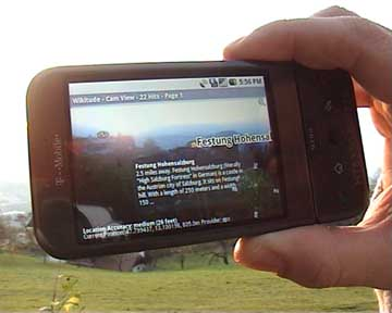 On this image you see a G1 Google phone based on Android running an Augmented-Reality application called Wikitude. On the camera view of the mobile phone, you see that the reality (as expressed by the camera image) is overlaid by computer generated data. In this case a label and description of the Festung Hohensalzburg.